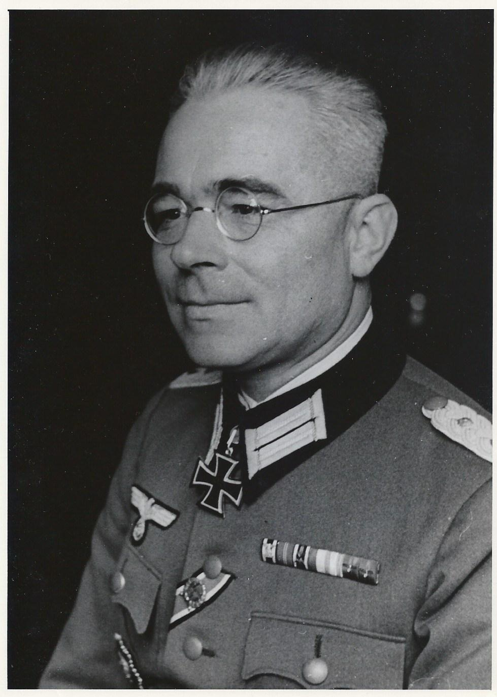 Major General Joachim v. Siegroth